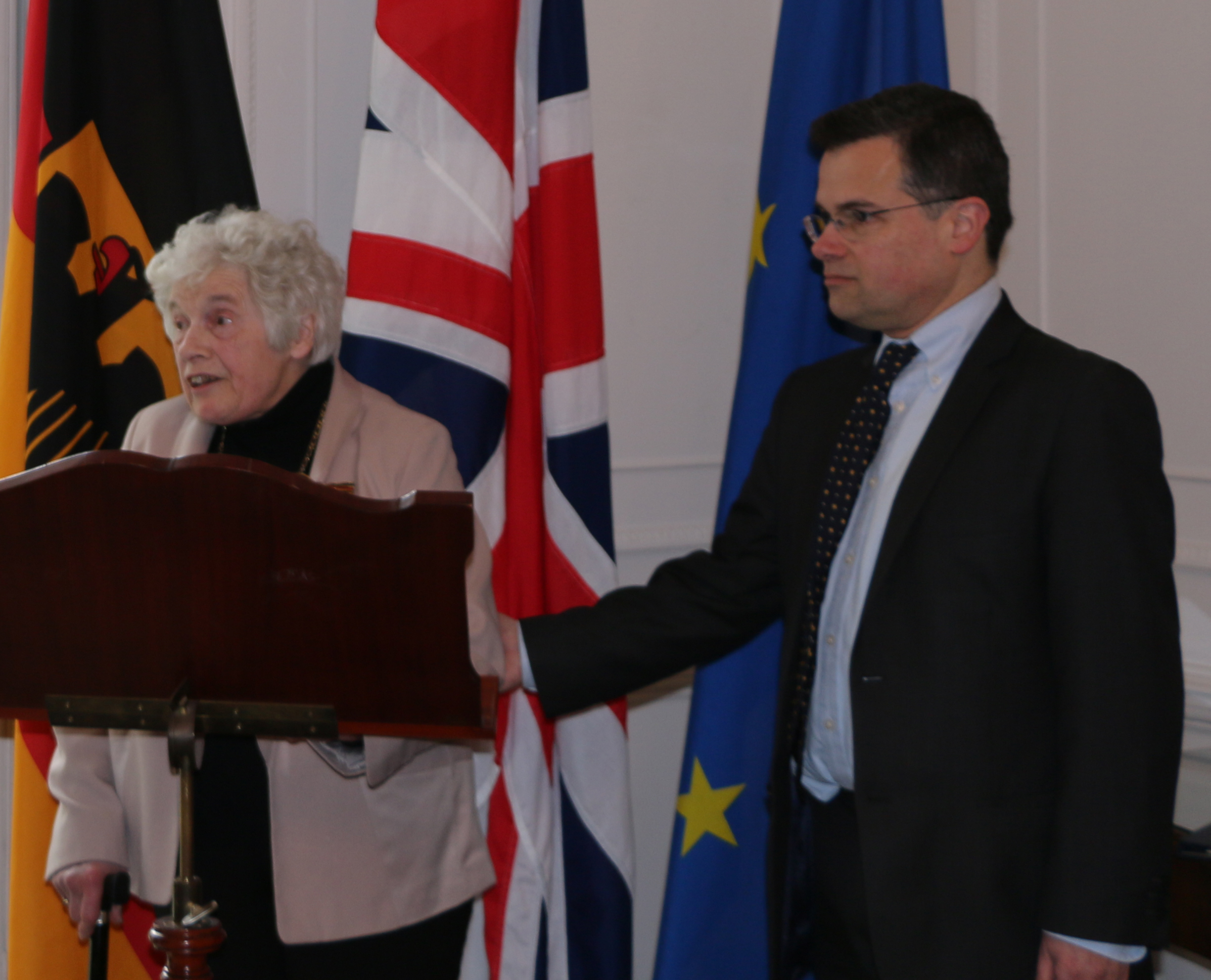 Anthea Bell receives Cross of the Order of Merit of the Federal Republic of Germany, 29 January 2015